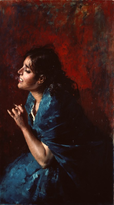 This work comes from a private collection and depicts a young woman sensually smoking a cigarette, heightening the idea of uninhibited, free femininity by the voluptuousness of the pose. The subject is not new, it dates from the late 19th century, and is influenced by the unconventional iconography introduced by the Scapigliatura movement, to be found for instance in The Reader by Federico Faruffini (1864, Milan, Galleria d'Arte Moderna [1]) or the literary theme of The Opium Smokers by Gaetano Previati (1887, Piacenza, Galleria d’Arte Moderna Ricci Oddi [2]). The female figure is central to the genre painting of the Neapolitan Irolli who depicts it sometimes in a spiritual religious key as in The Angel Musician in the Collection, and sometimes in a sensual key. He painted the latter subject until the 1930s, probably looking to the models that became established through photography and the cinema. In the work in the Collection female sensuality is expressed through a composition that focuses on the figure of the model and on a play of strong blues and reds, in the dress and background respectively. The pictorial quality is enriched by immediate gestures like the pure white applied directly from the tube to the canvas along the neckline of the dress. What results is an image of a provocative and ironical woman, painted with a sensitivity that Irolli shares with Vincenzo Caprile and Giuseppe Migliaro, who, like him, trained in the Neapolitan milieu and were candid interpreters of the life of the common people, according to a new approach that characterised not only painting but also Realist literature.